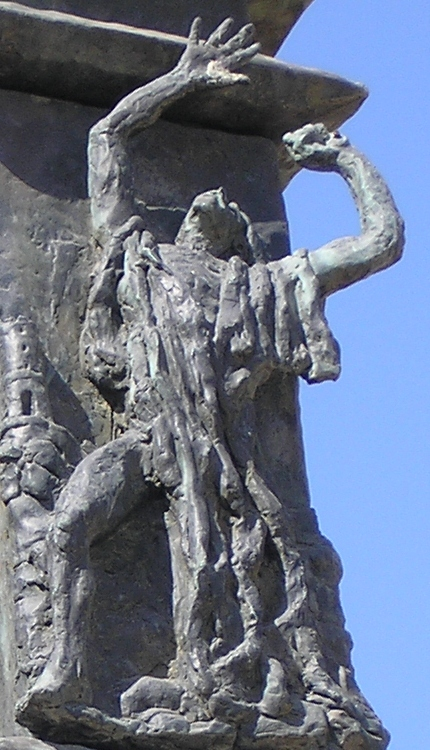 The Knesset Menorah, Jerusalem (detail - The proffet Jeremiah)